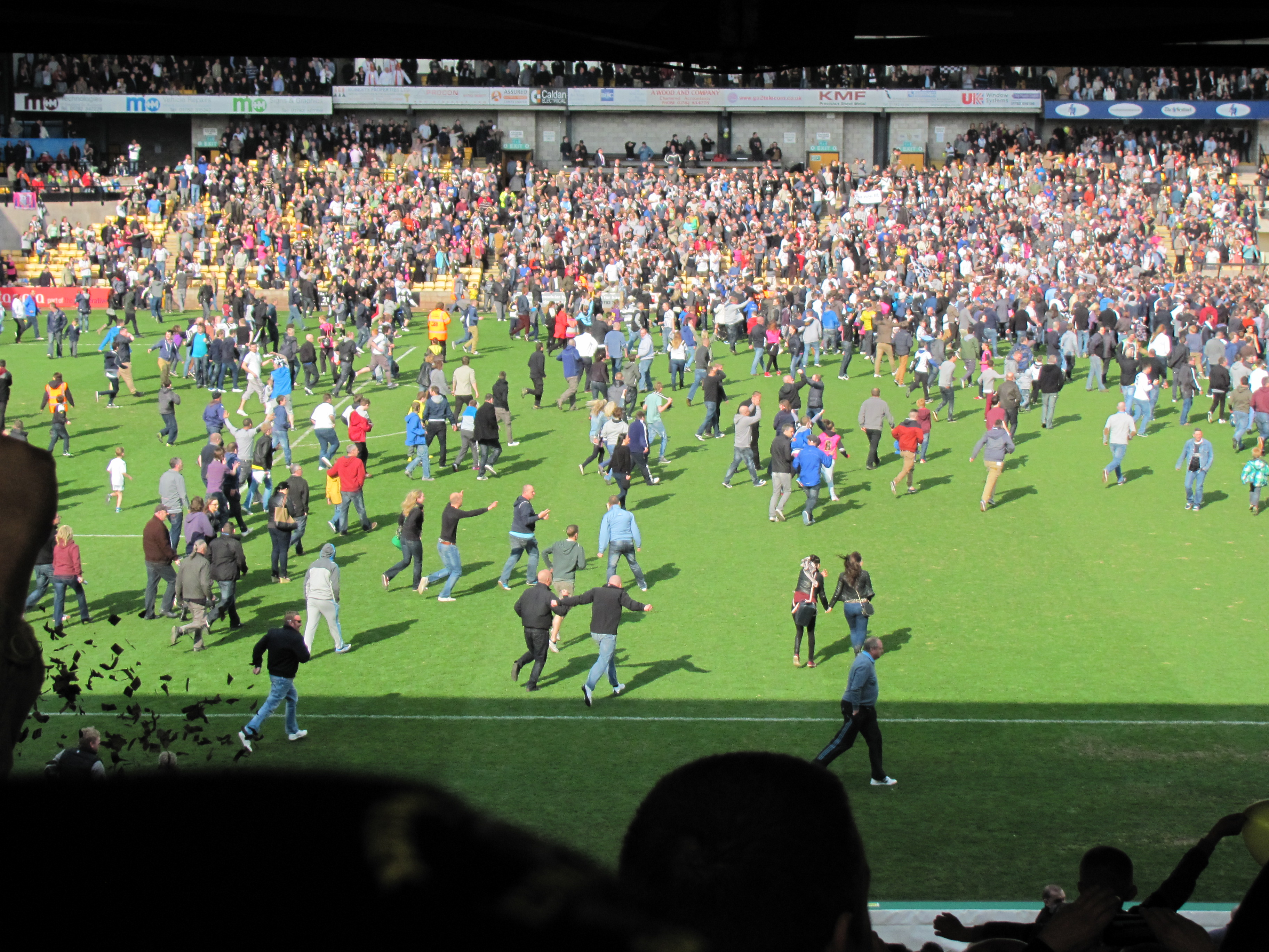 Pictured during the 2-2 draw between Port Vale and Northampton Town on 20 April 2013.